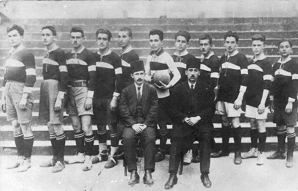 Photograph of a football team in Trabzon, Turkey, 1920-1925.